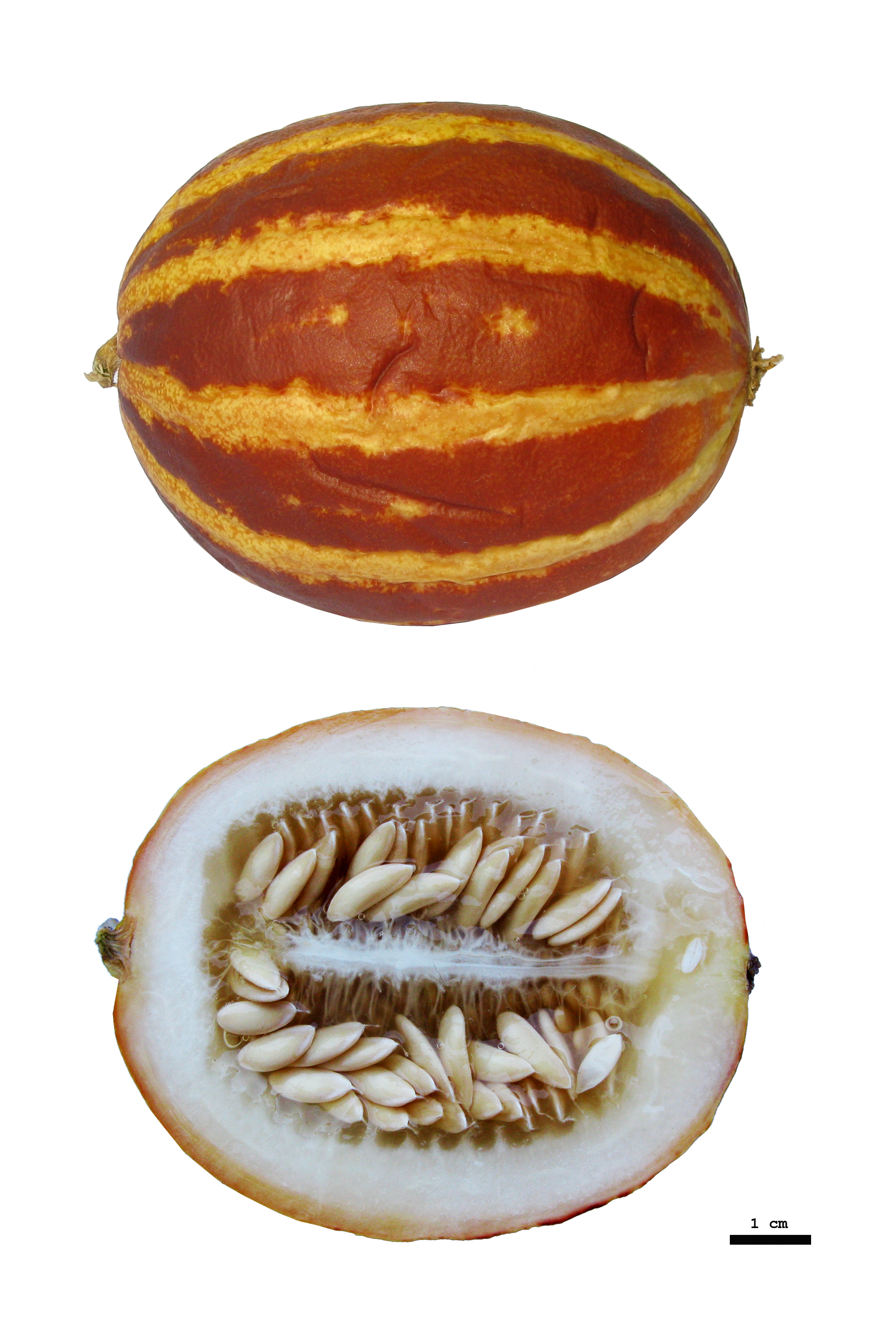 The fruit of a melon (Cucumis melo) of "Queen Anne's Pocket" variety. The variety is characterized by small fruits about 8 cm in size and weighing up to 600 grams. The rind is thin, striped, yellow-orange in color. Characterized by high yields - up to 30 fruits per plant.